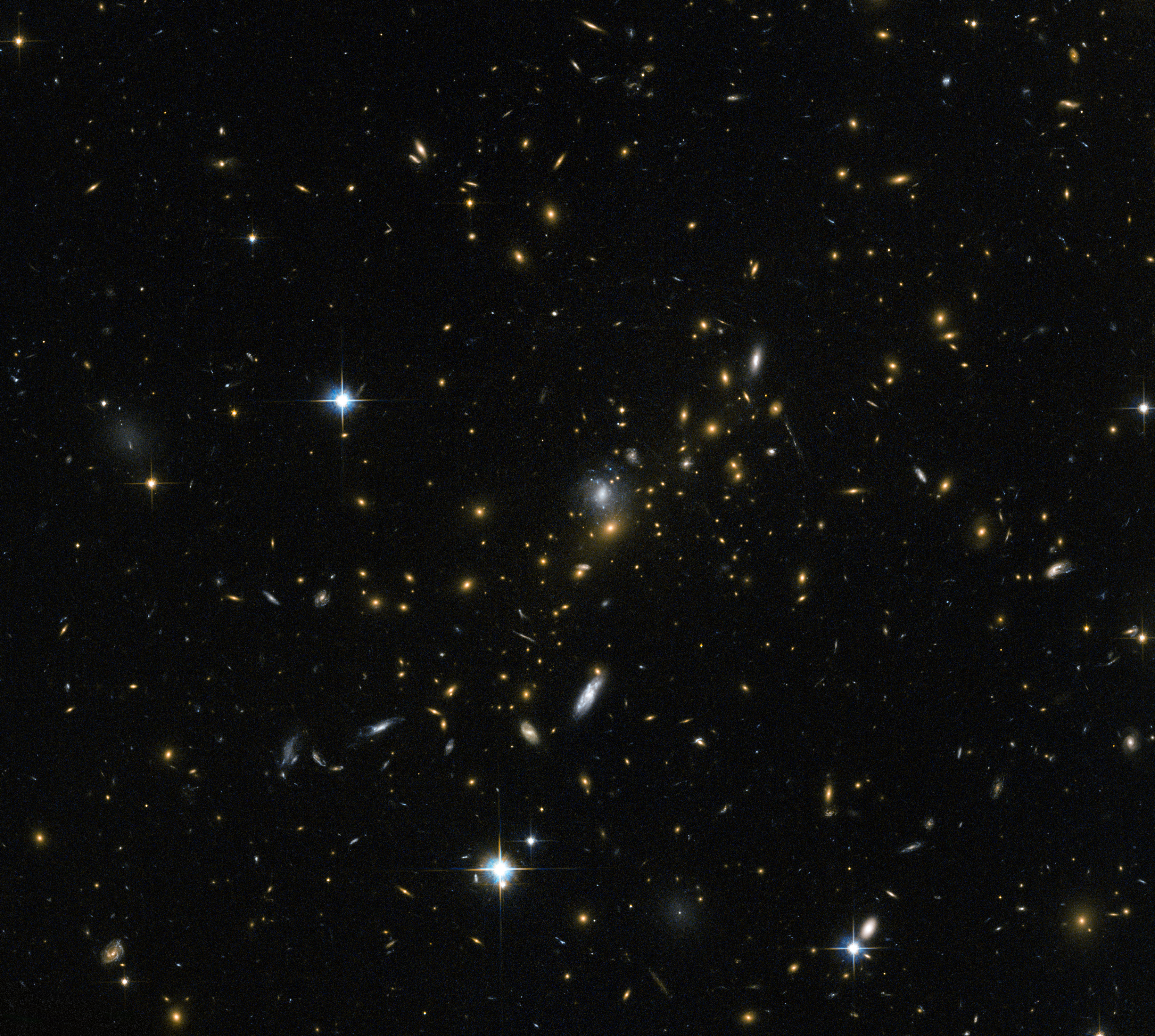 Galaxy clusters are some of the most massive structures that can be found in the Universe — large groups of galaxies bound together by gravity. This image from the NASA/ESA Hubble Space Telescope reveals one of these clusters, known as MACS J0454.1-0300. Each of the bright spots seen here is a galaxy, and each is home to many millions, or even billions, of stars. Astronomers have determined the mass of MACS J0454.1-0300 to be around 180 trillion times the mass of the Sun. Clusters like this are so massive that their gravity can even change the behaviour of space around them, bending the path of light as it travels through them, sometimes amplifying it and acting like a cosmic magnifying glass. Thanks to this effect, it is possible to see objects that are so far away from us that they would otherwise be too faint to be detected. In this case, several objects appear to be dramatically elongated and are seen as sweeping arcs to the left of this image. These are galaxies located at vast distances behind the cluster — their image has been amplified, but also distorted, as their light passes through MACS J0454.1-0300. This process, known as gravitational lensing, is an extremely valuable tool for astronomers as they peer at very distant objects. This effect will be put to good use with the start of Hubble's Frontier Fields program over the next few years, which aims to explore very distant objects located behind lensing clusters, similar to MACS J0454.1-0300, to investigate how stars and galaxies formed and evolved in the early Universe. A version of this image was entered into the Hubble's Hidden Treasures image processing competition by contestant Nick Rose.